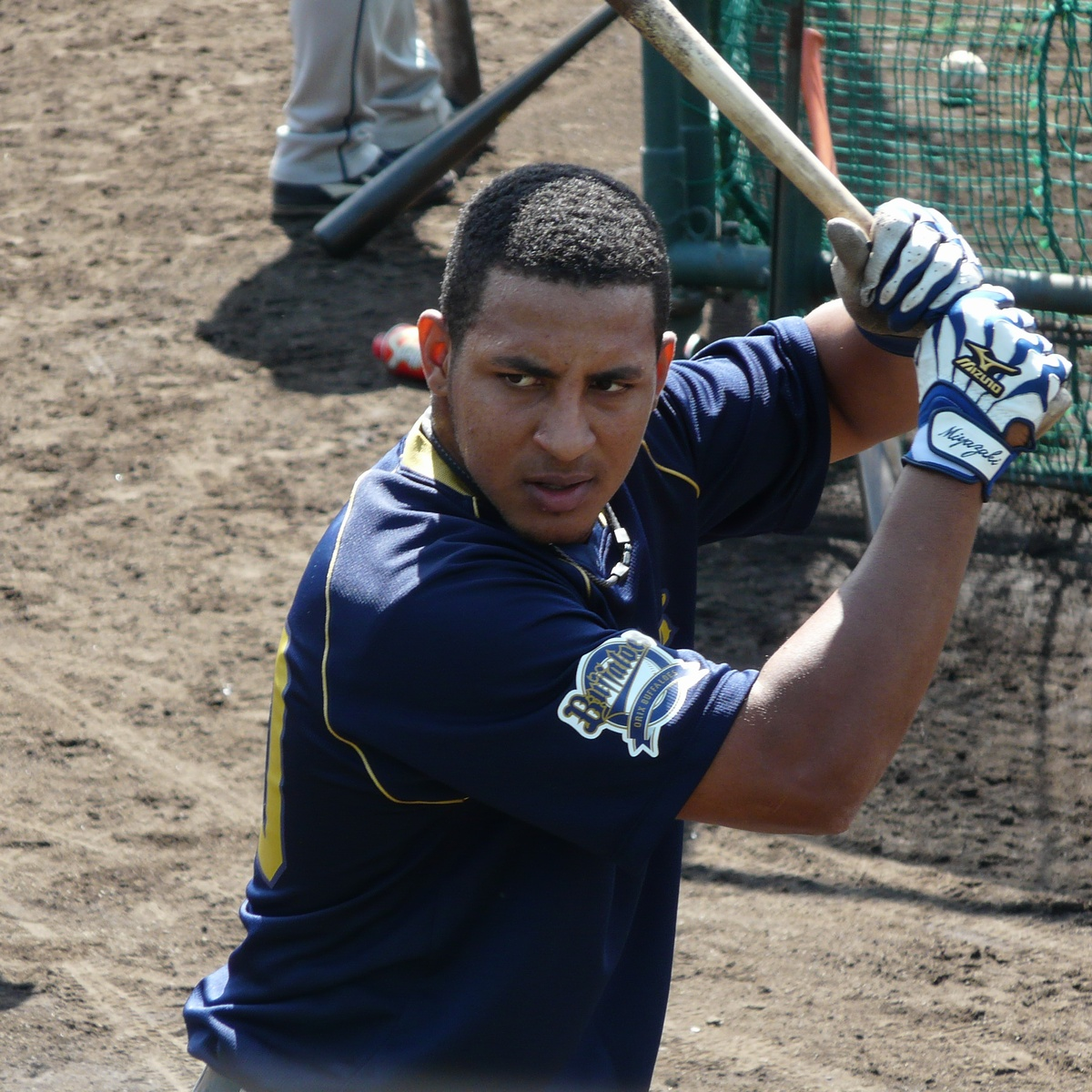 Gregory Veloz